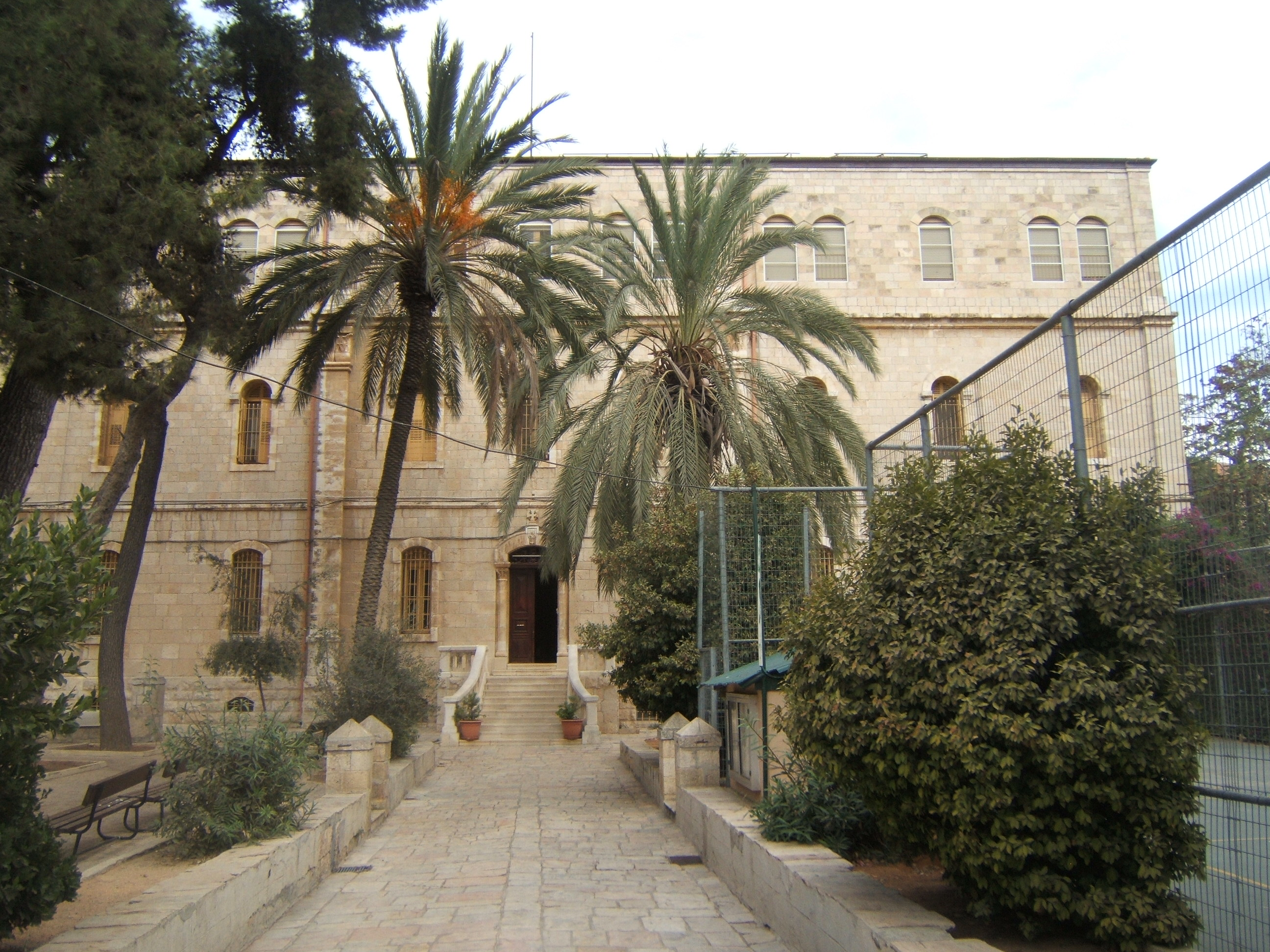 Saint Joseph de l'Apparition, Street of Prophets, Jerusalem